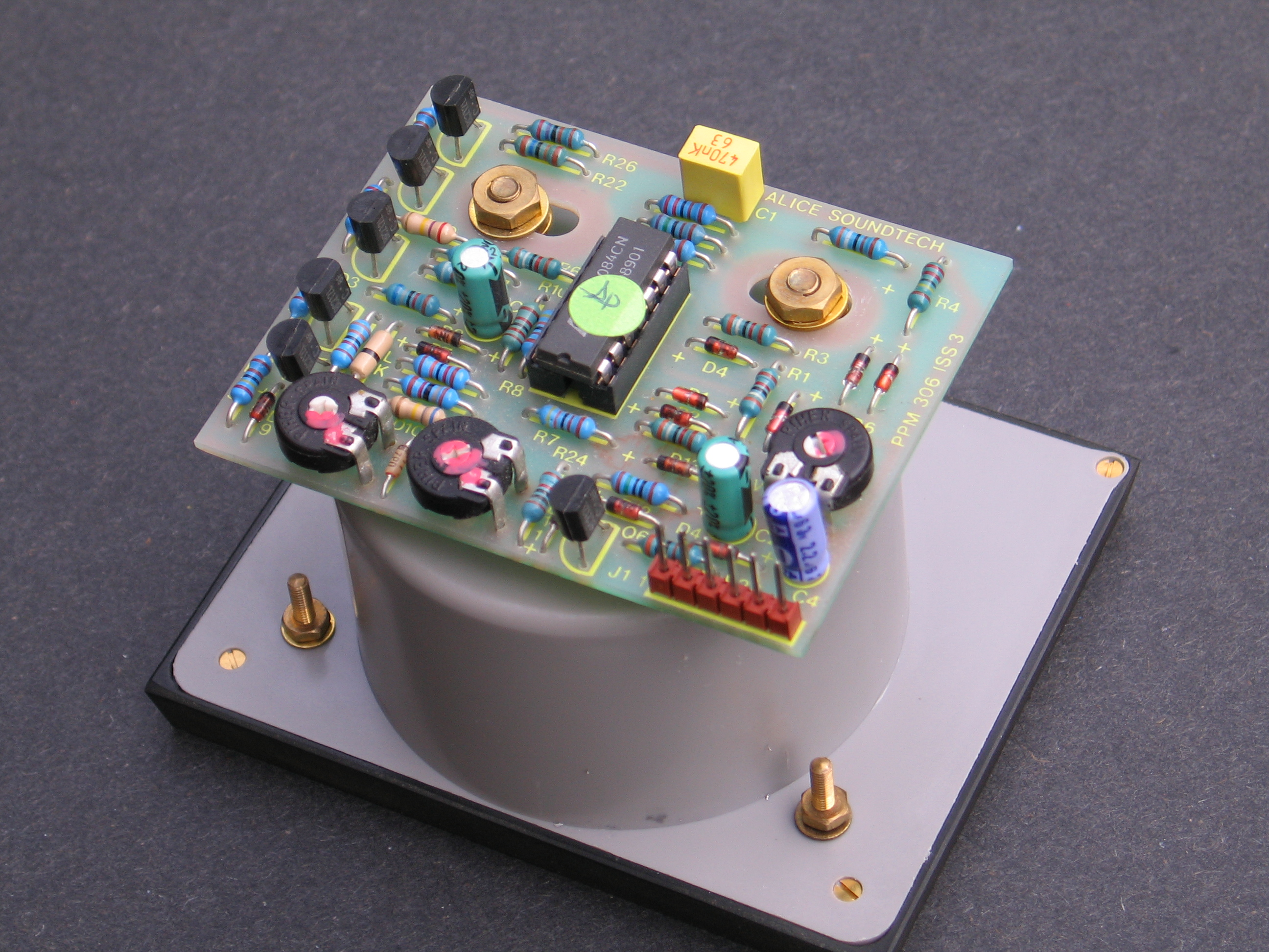 Alice Soundtech PPM 306 Peak programme meter driver card, mounted on back of meter movement.